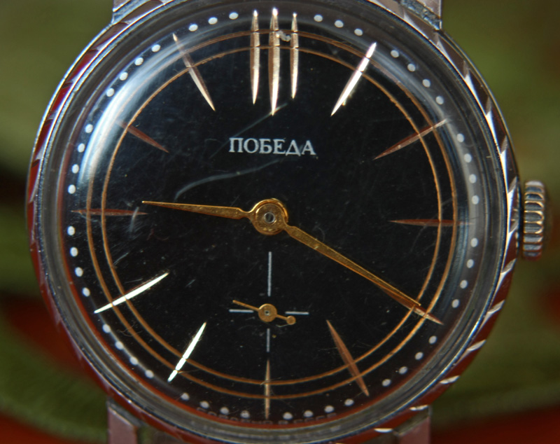 Pobeda watch